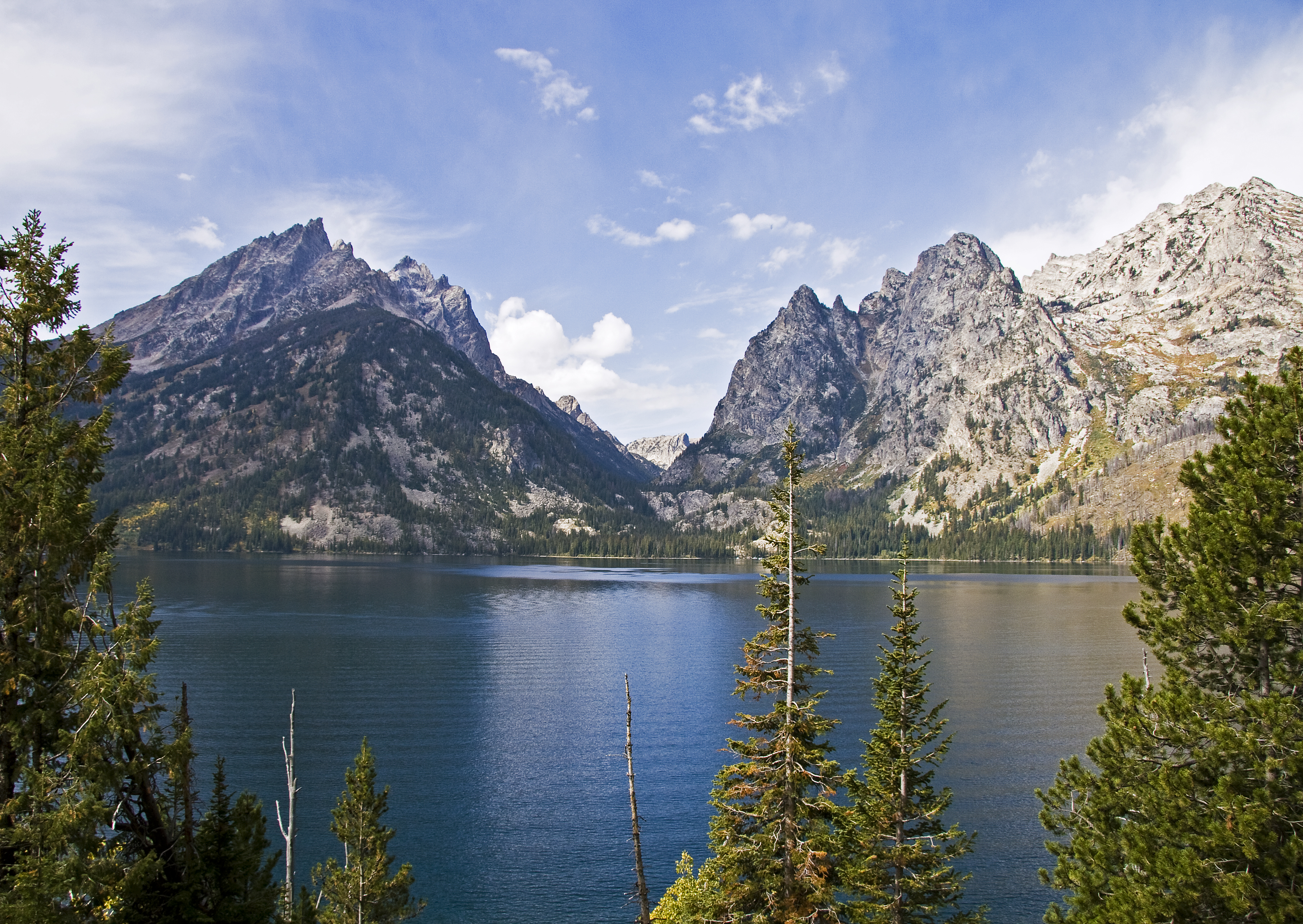 Jenny Lake and Cascade Canyon in Grand Teton National Park, Wyoming, USA.